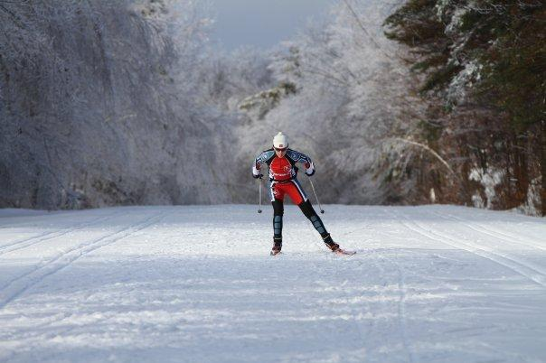 Photo taken of Lise Meloche (world cup gold medalist) immediatelt after an ice storm in the Gatineau Park, Quebec, Canada